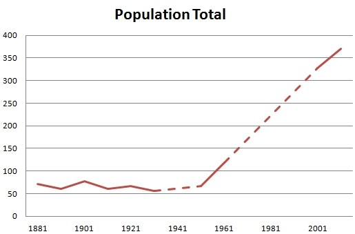 A graph showing the development of the population total from 1881 to 2011. Dashed line indicates that there is no data available but shows how the population may have developed.